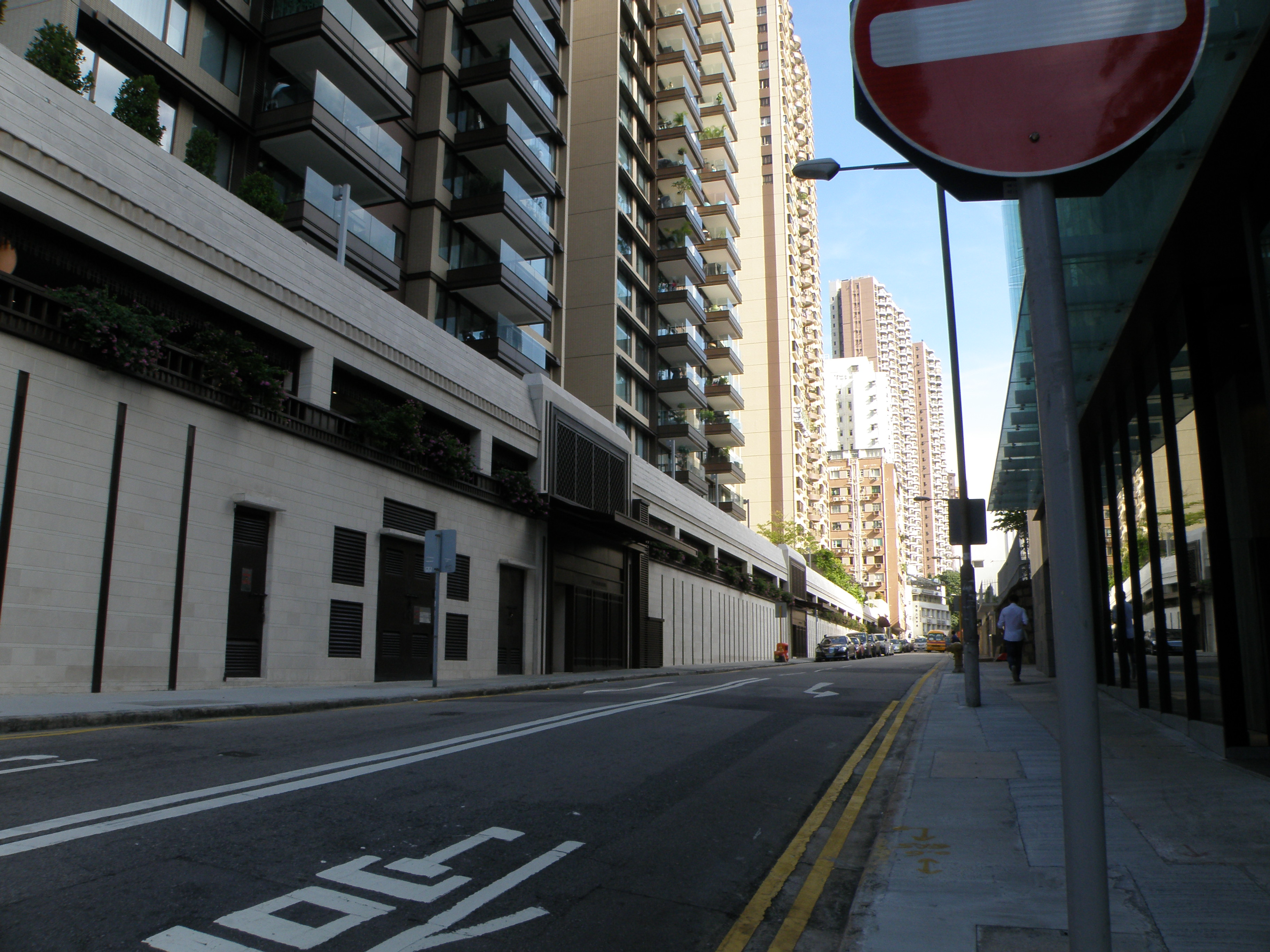 Ventris Road in Happy Valley, Hong Kong.